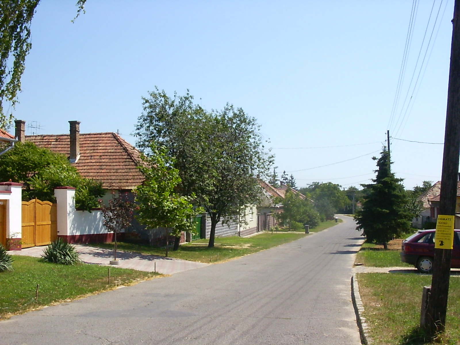 Street view from Szerecseny